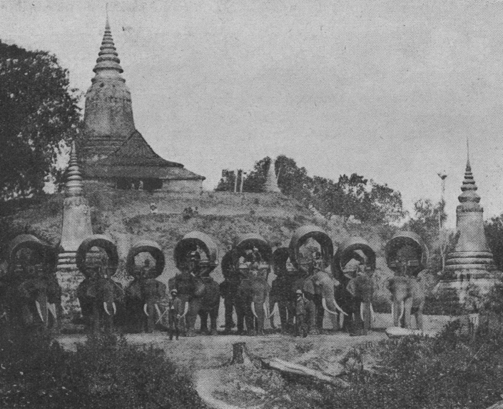 Photograph of the preparation of a convoy of elephants from Mission Pavie, Vol VII